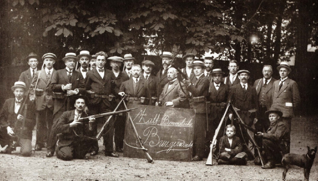 Civil Guard of Zaltbommel